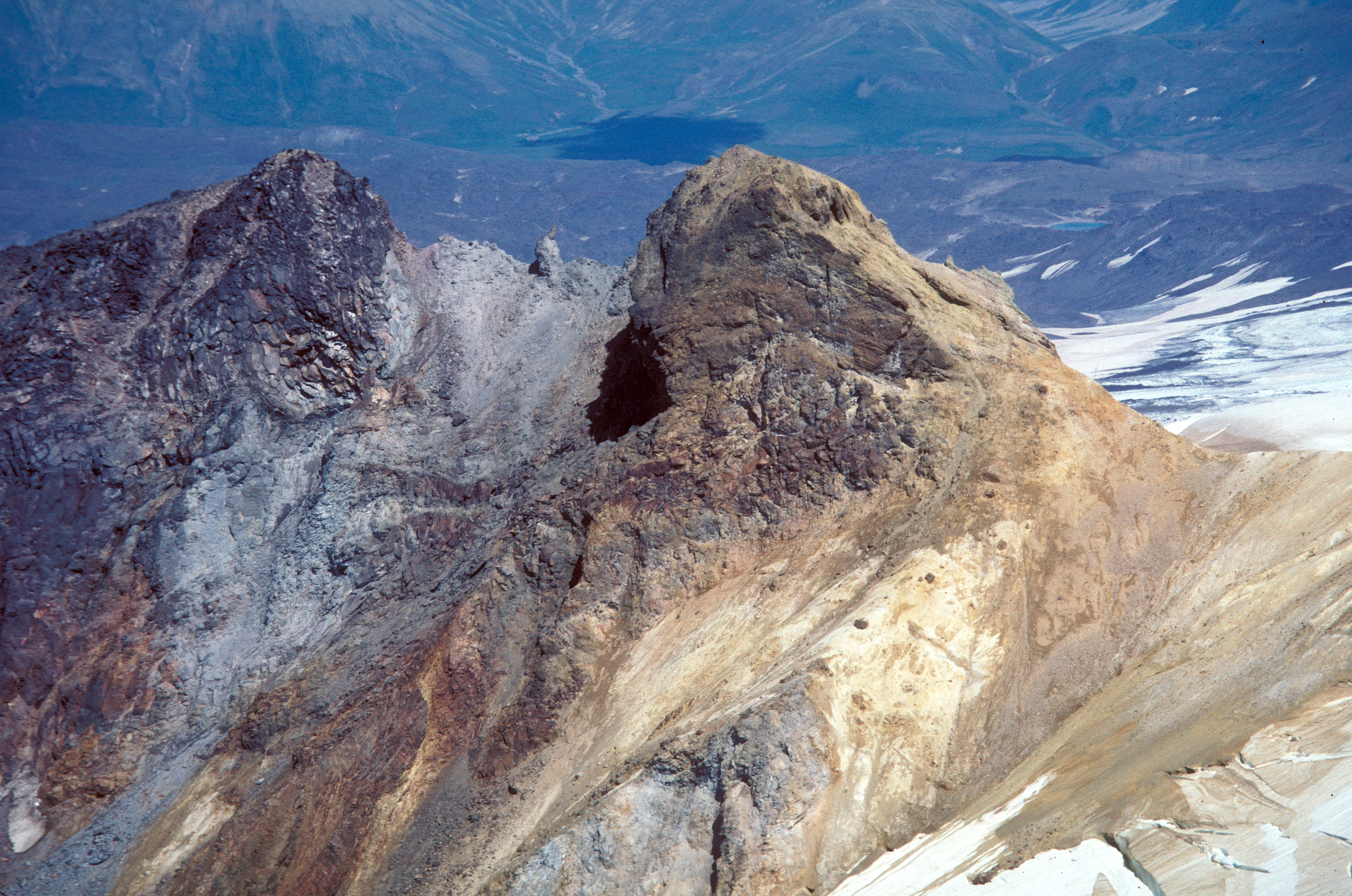 Photo of the summit and crater of Alagogshak volcano in the Aleutian Range, Katmai National Park, Alaska, USA. Photo by E.W. Hildreth, Alaska Volcano Observatory. Color corrected and slightly cropped from slide image.